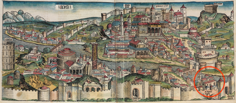 The church Santa Maria del Popolo is shown on the map of Rome and marked with a red circle. This map is part of the Nuremberg chronicle (1493).